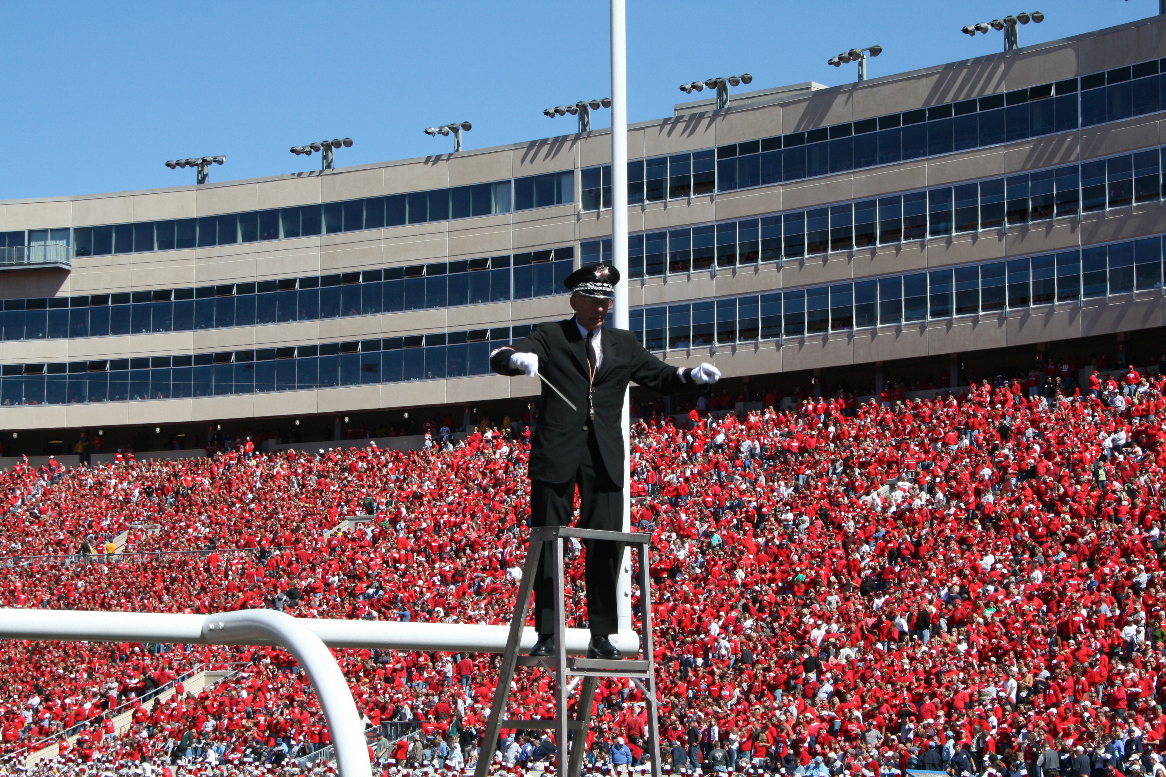 Conducting the high school bands at the 2007 Band Day.